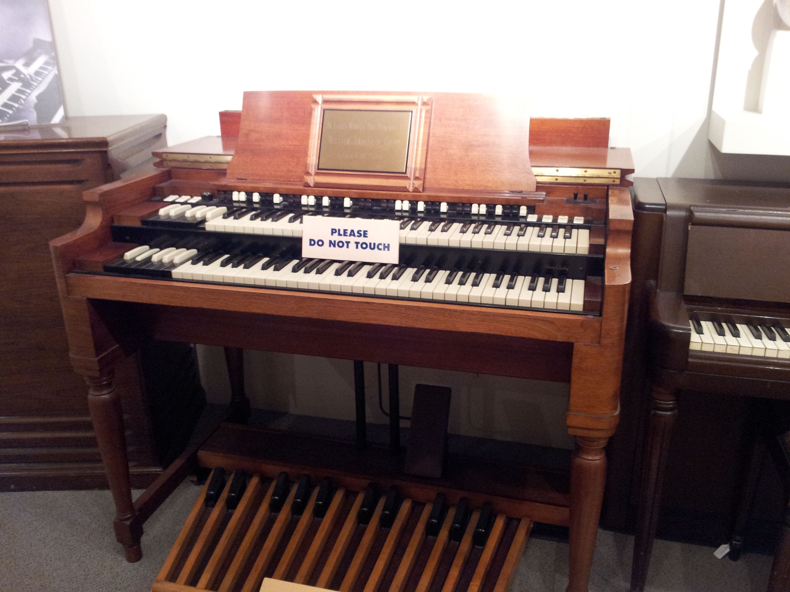 Hammond B3, Museum of Making Music